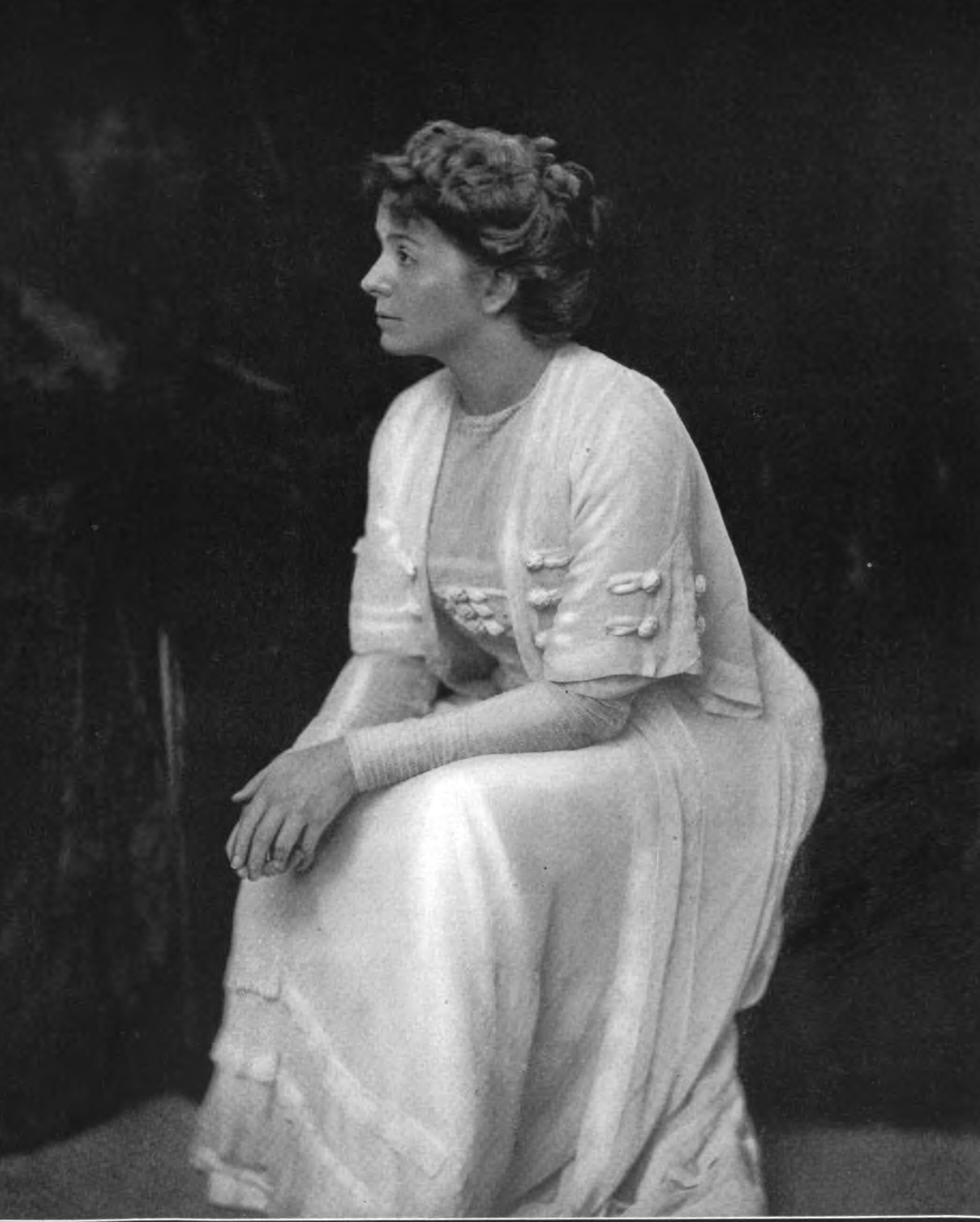 Maude Adams in What Every Woman Knows by J.M. Barrie